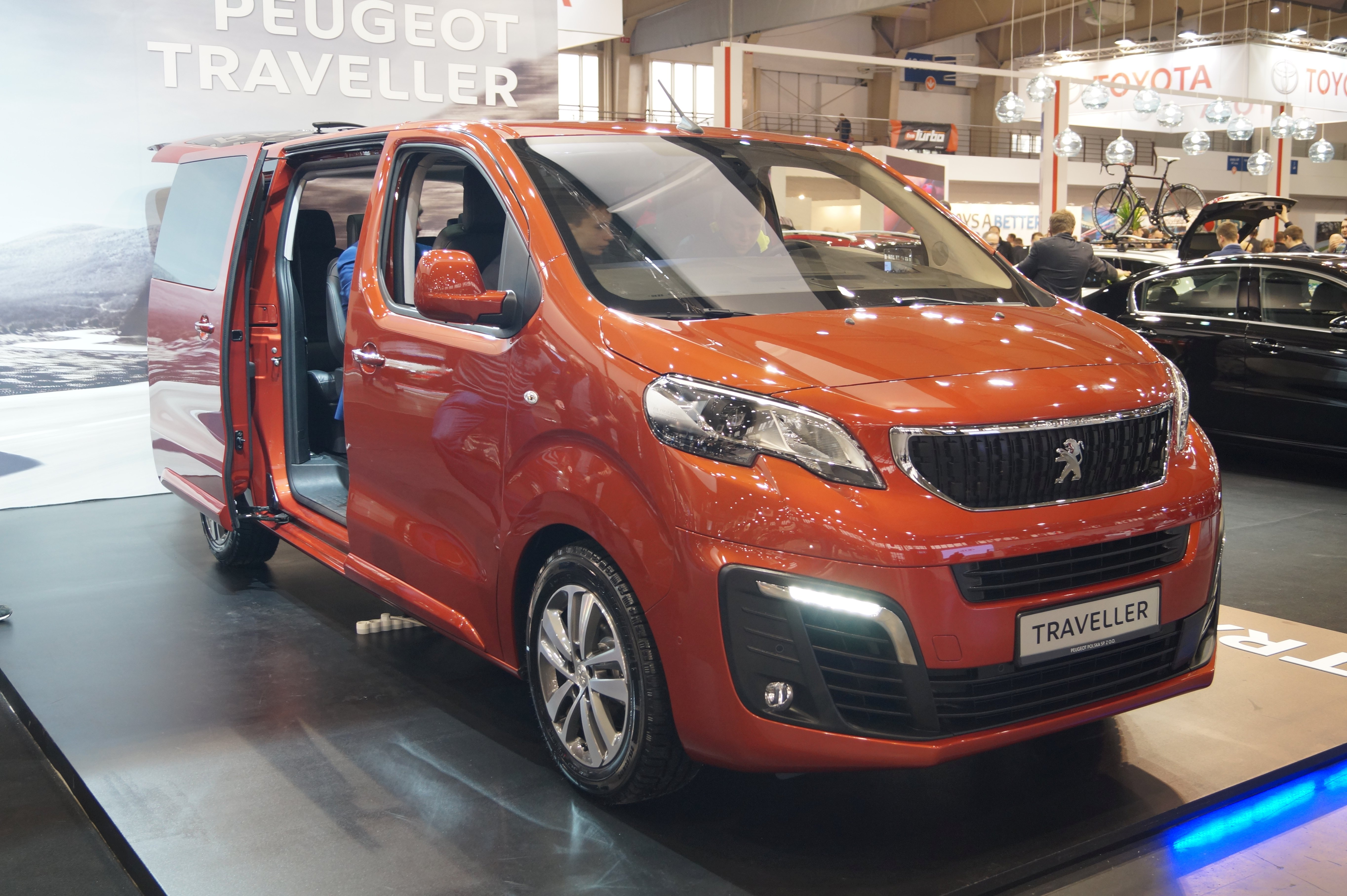 The making of this document was supported by Wikimedia Polska Association, within Wikigrant no. WG 2016-10. English | polski | +/− Peugeot Traveller na Motor Show Poznań 2016